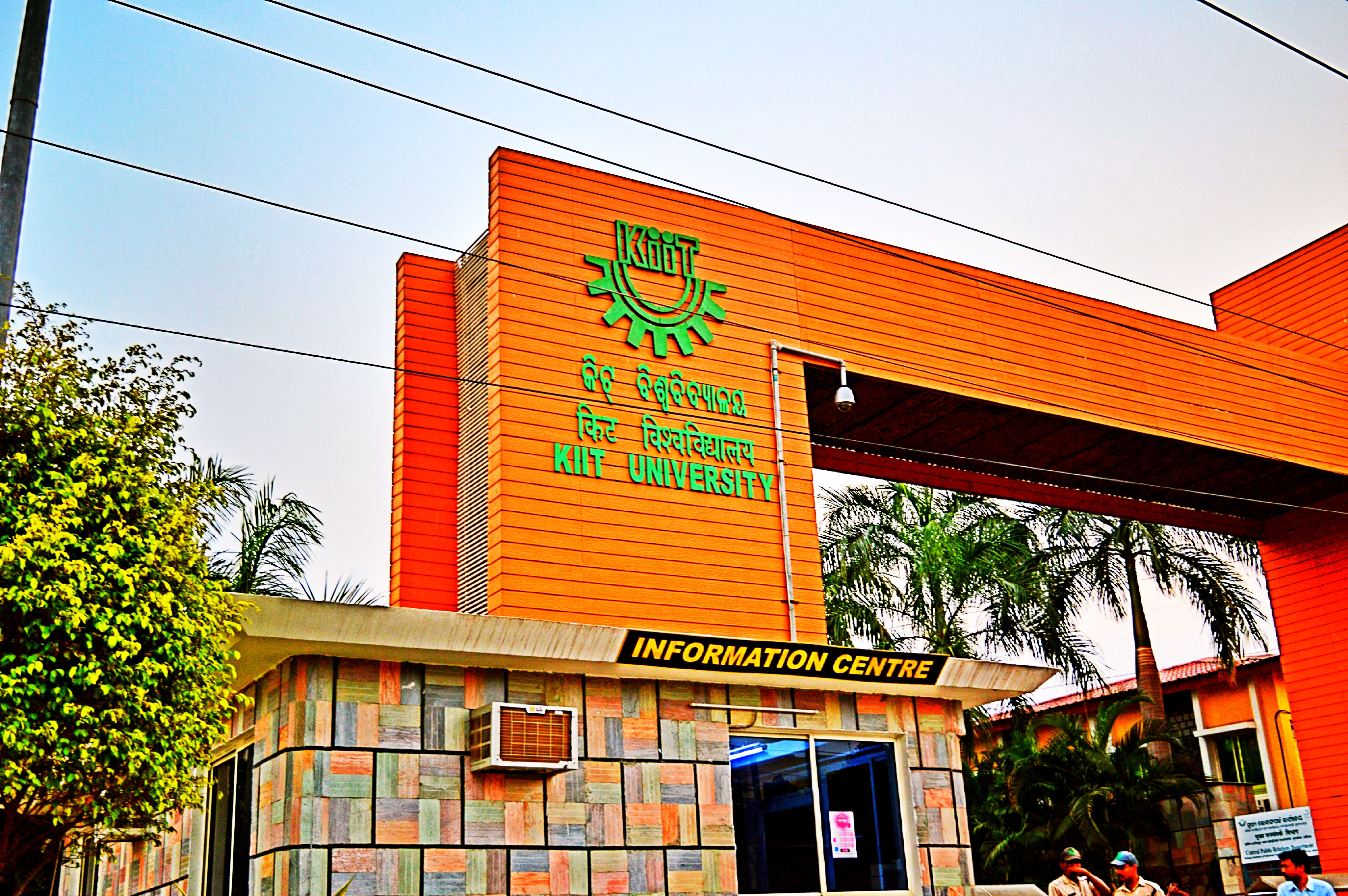 Kiit campus 6 front gate.